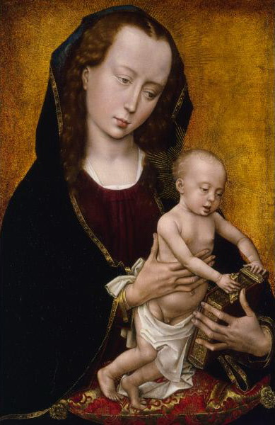 Part of the Diptych of Philip de Croÿ with The Virgin and Child (left wing)